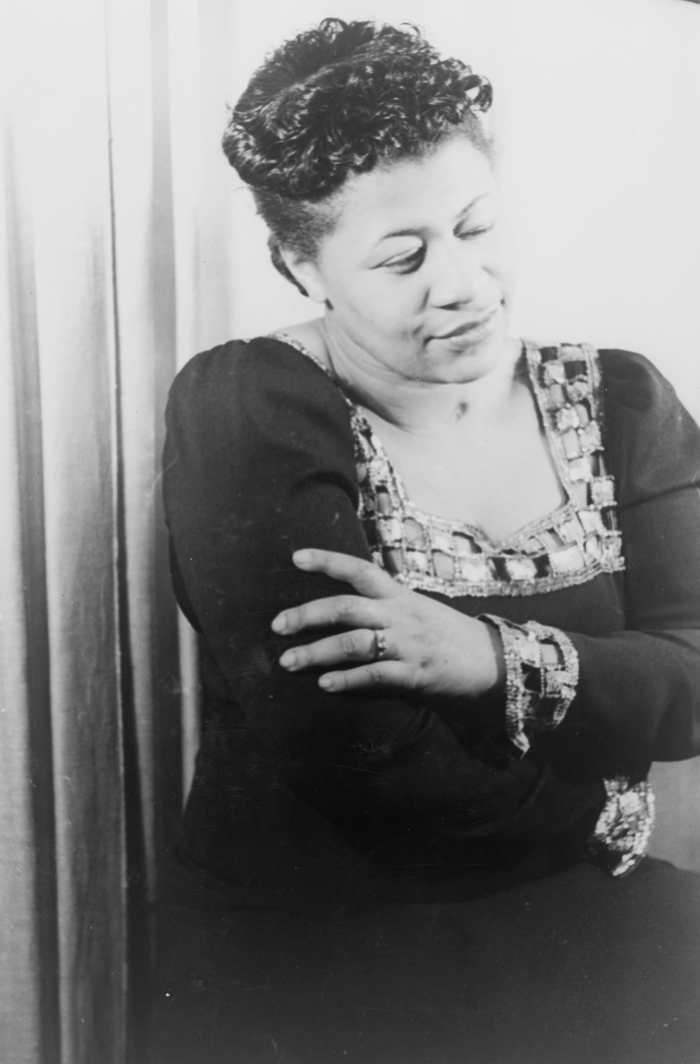 Ella Fitzgerald, photographed by Carl Van Vechten, 1940 Jan. 19